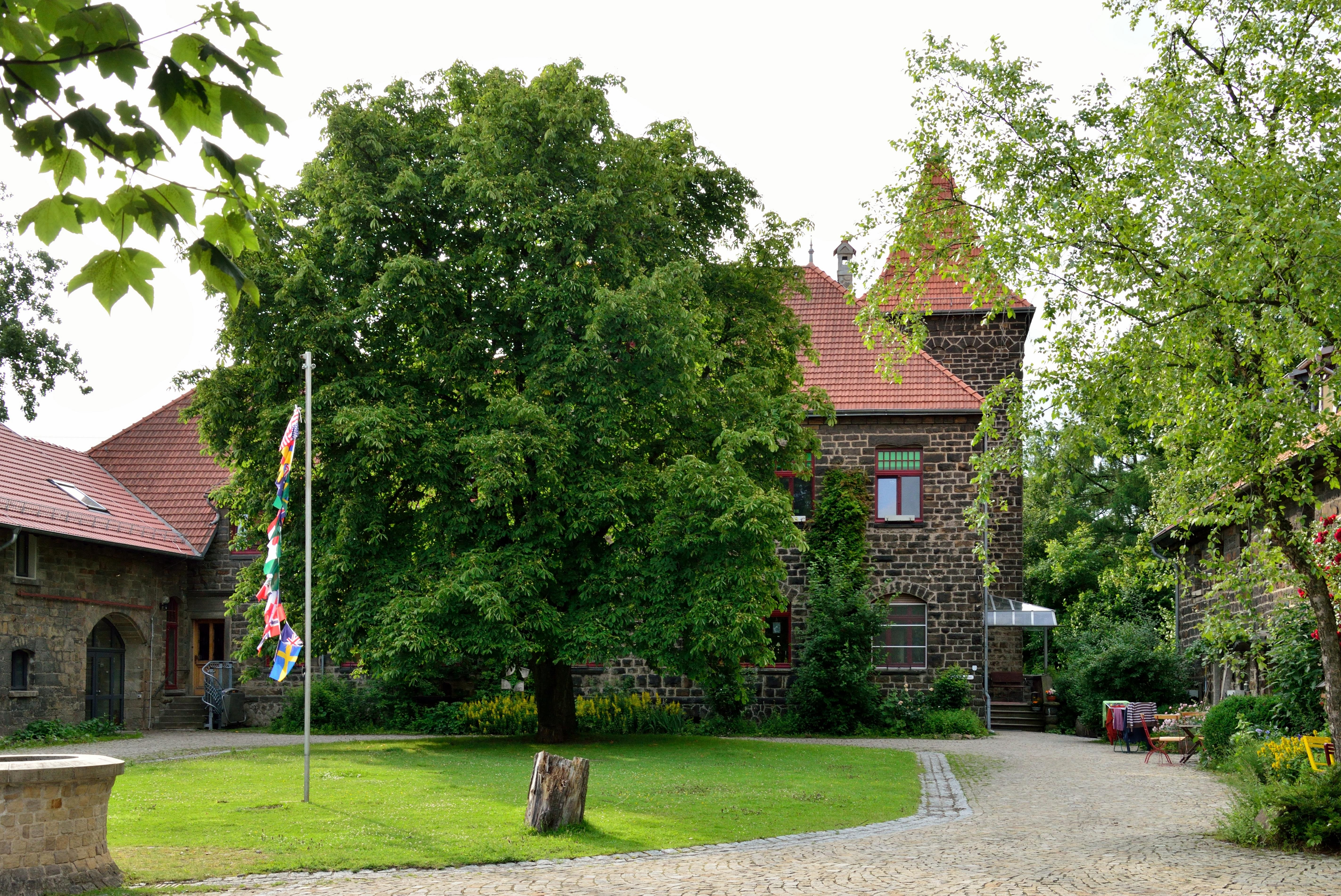 Christopherus-Hof, former Hofanlage Stinshoff, in Witten